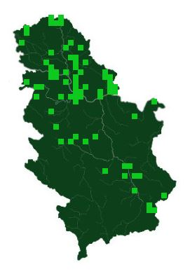 Rasprsotranjenje vrste u Srbiji (Alciphron)